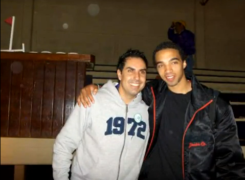 Davin White Bollo y Acuña